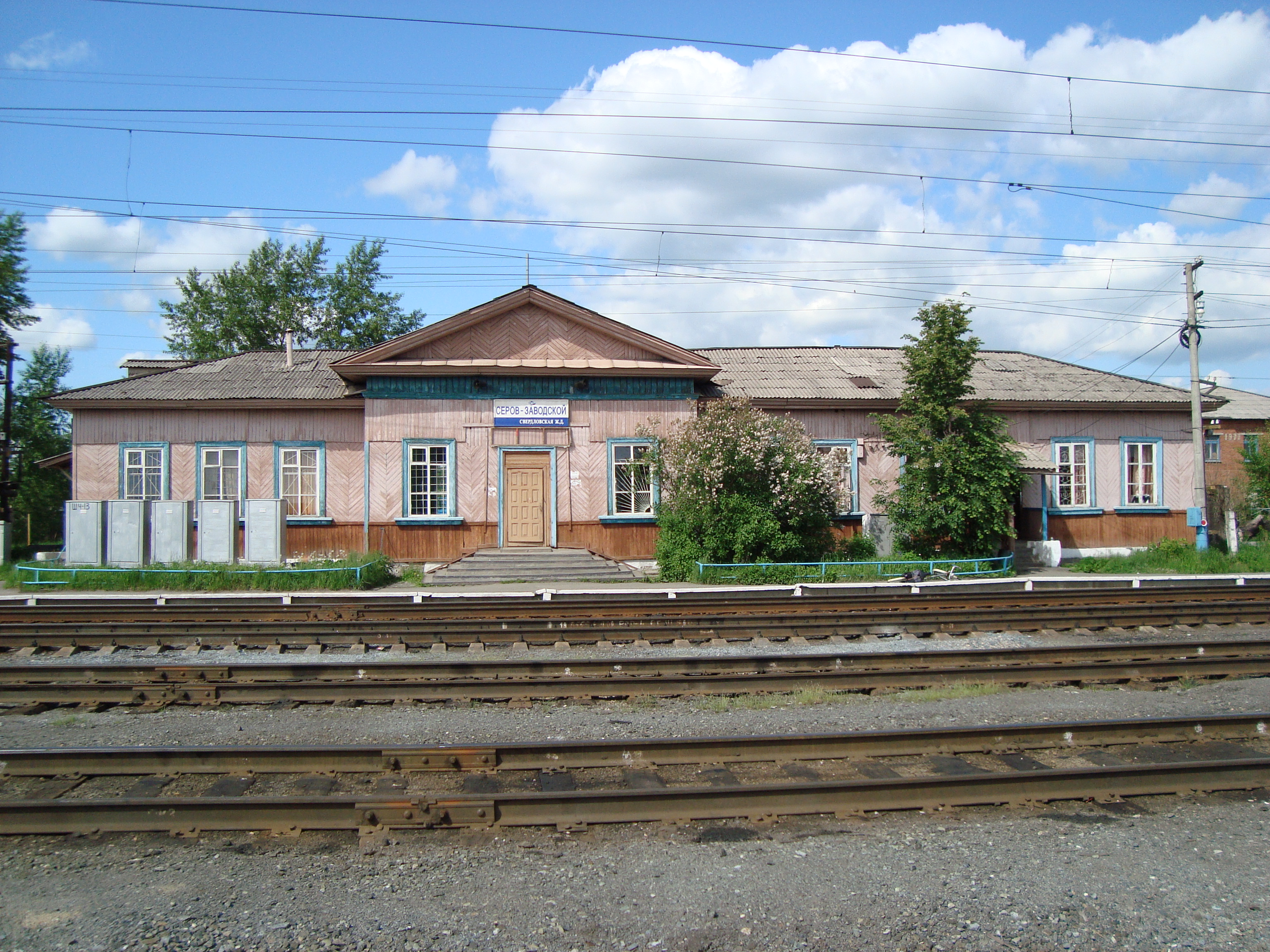 Здание станции Серов-Заводской